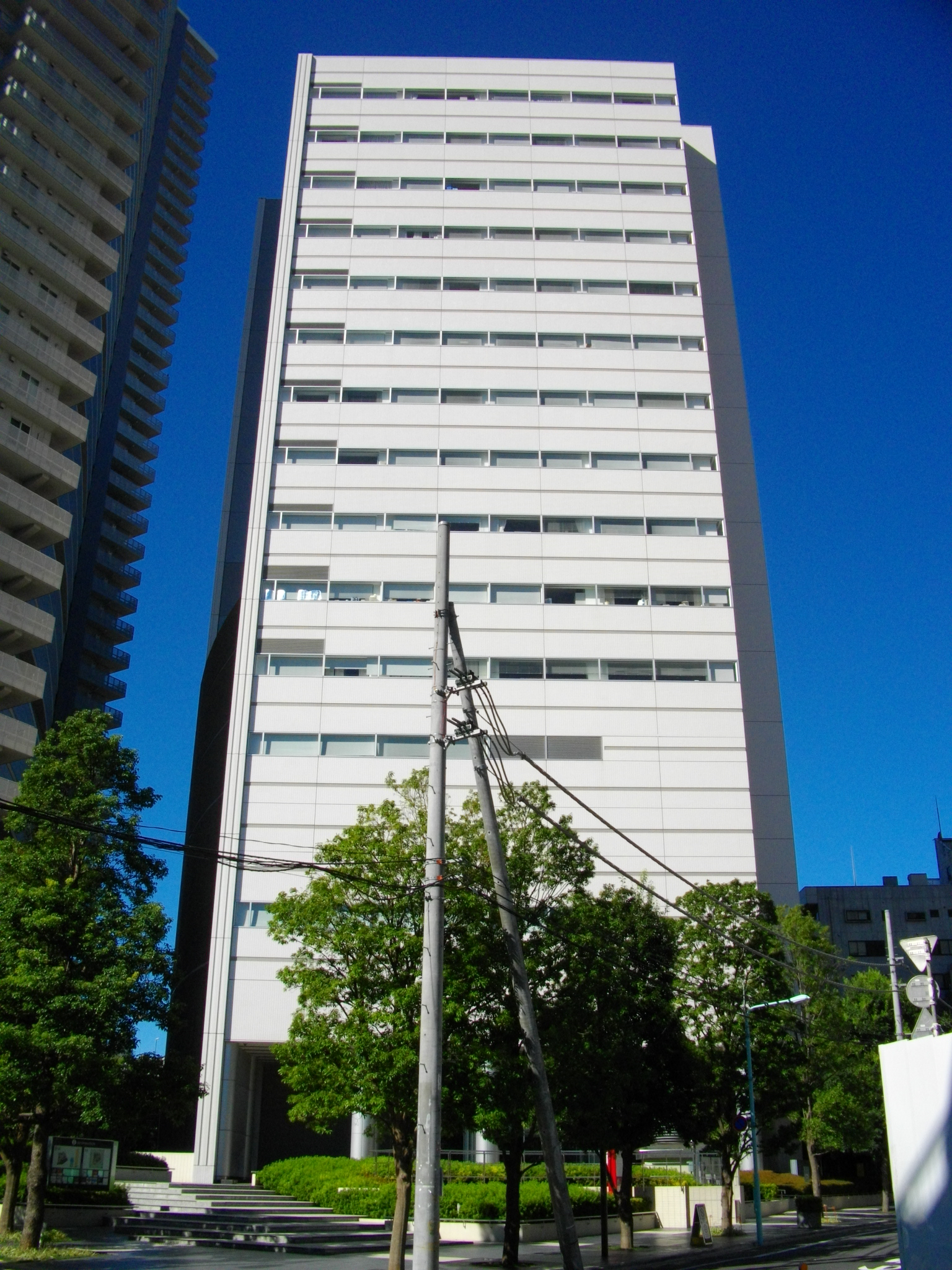 Rise Arena Building